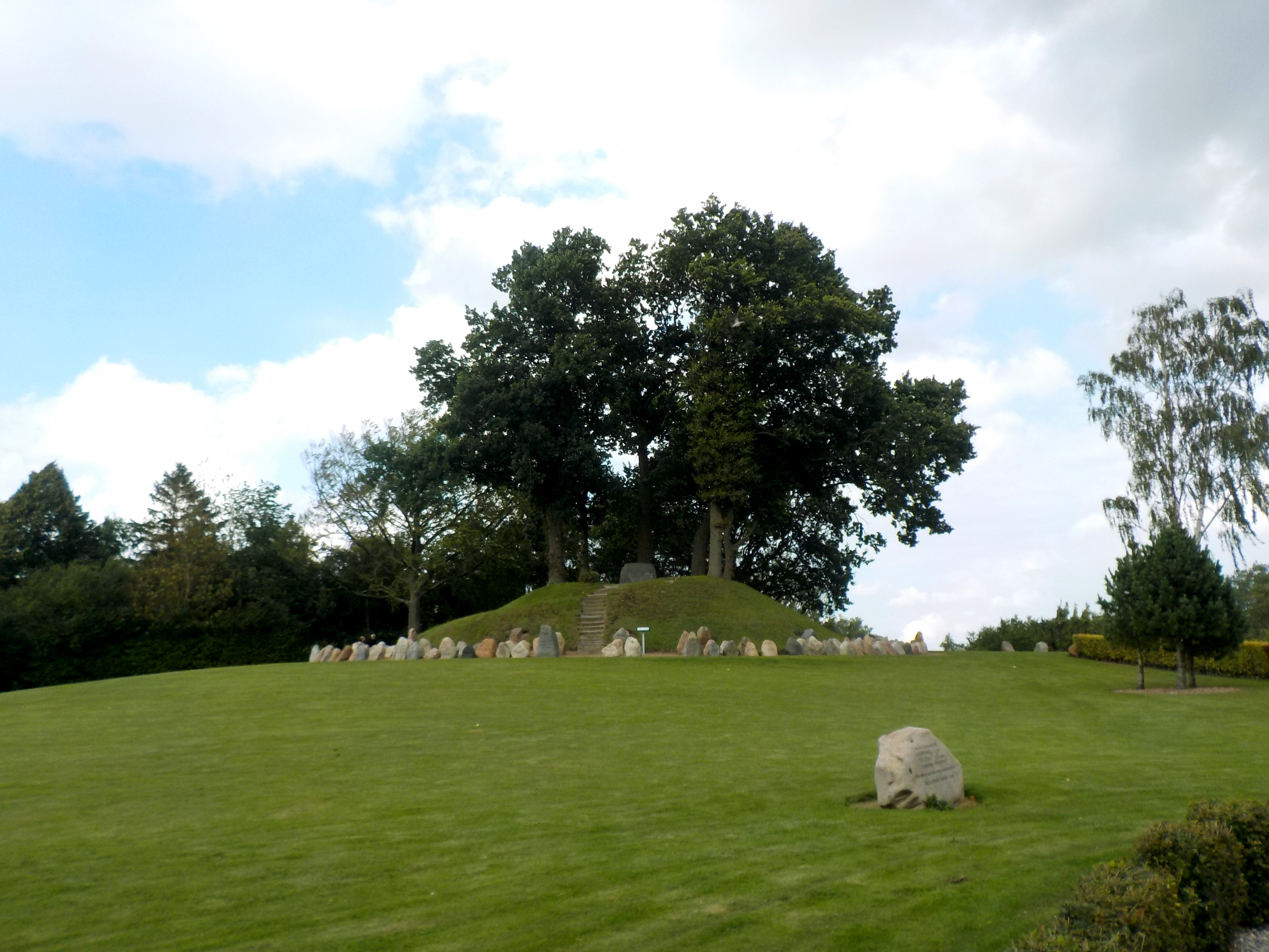 The memorial mount on the cemetery of Broager ...